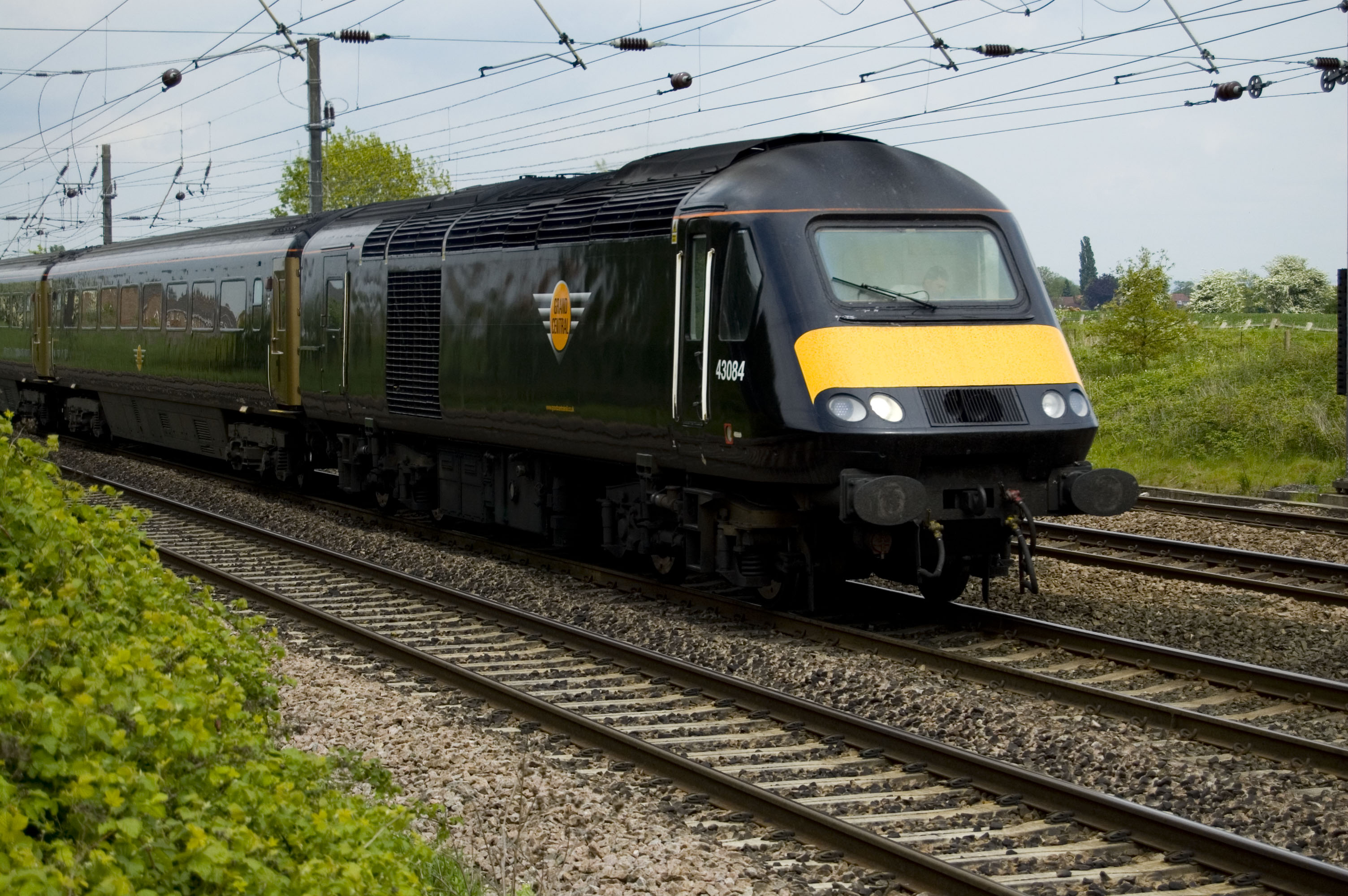 Grand Central Railways Class 43 near York